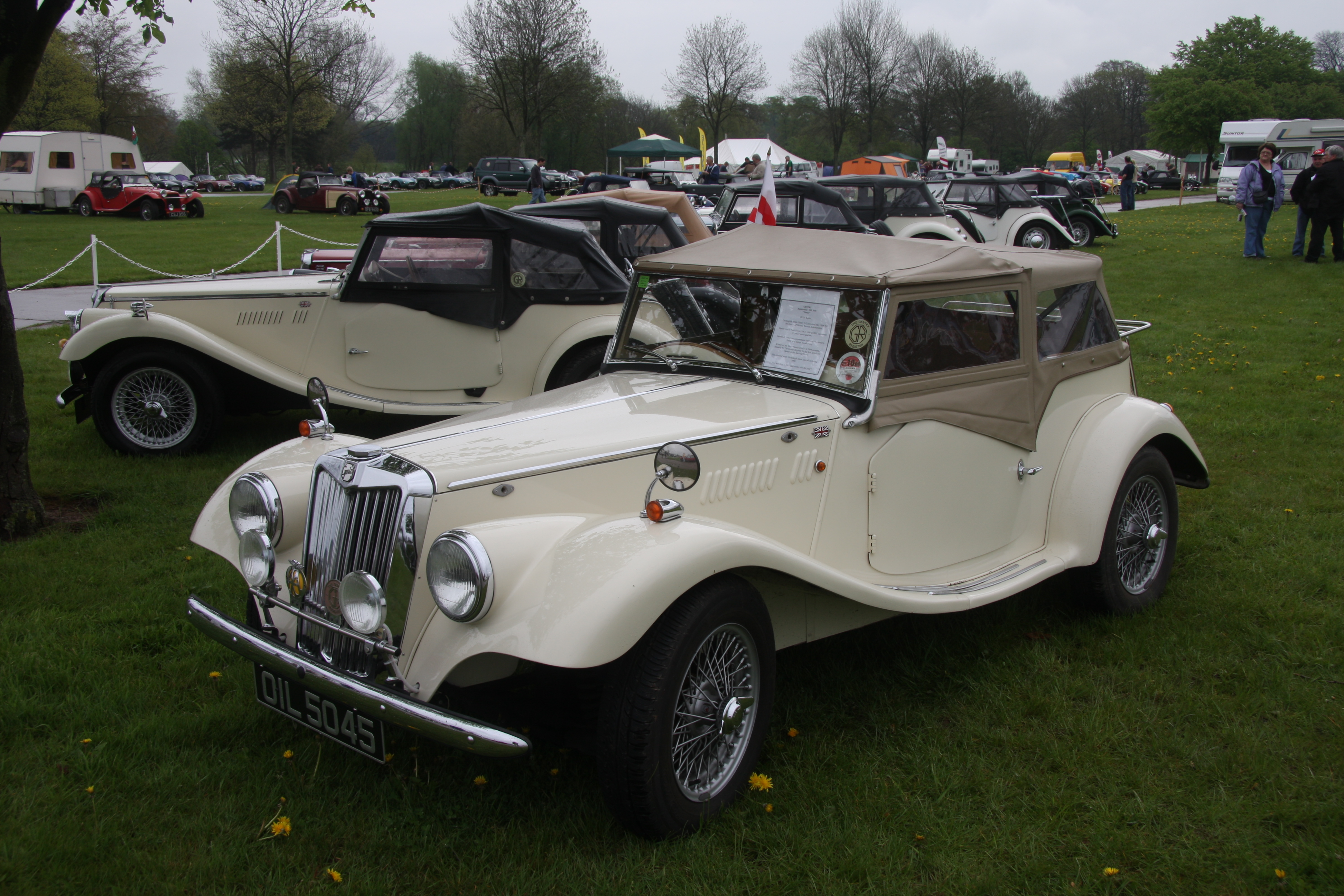 in the Owners' Club area